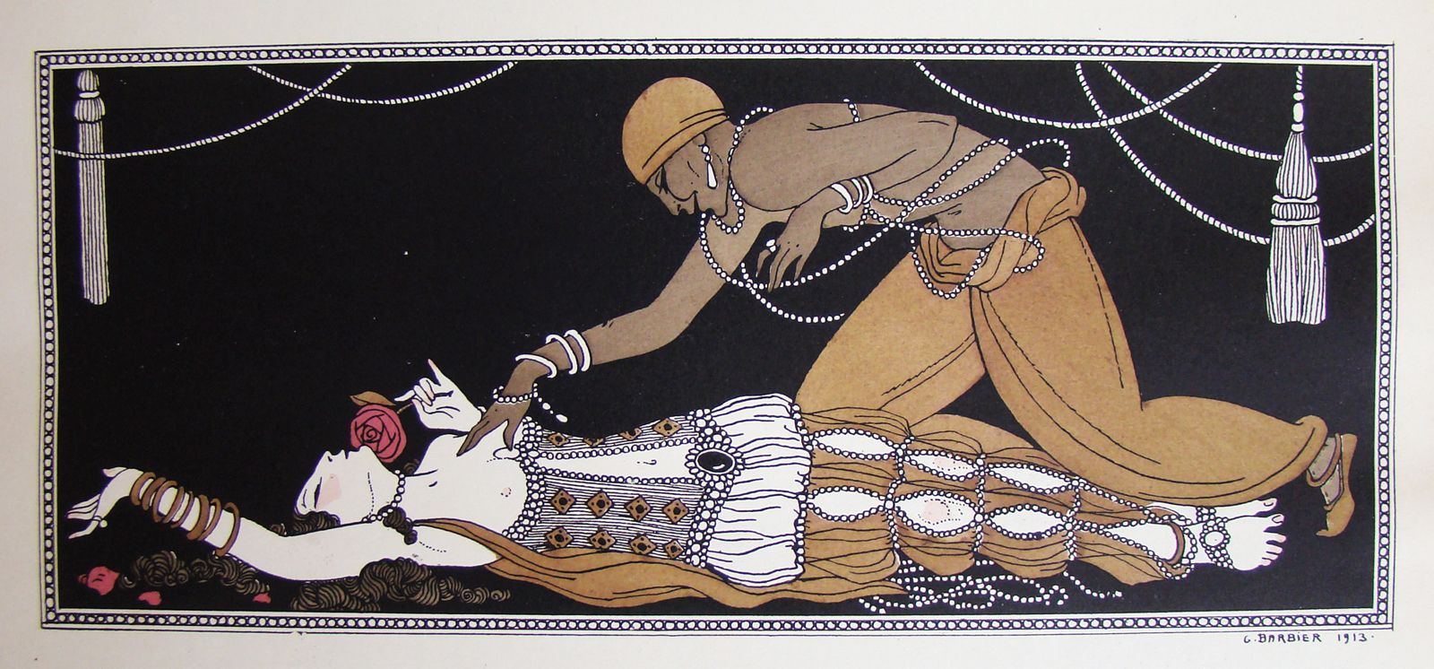 Vaslav Nijinsky (1890-1950) & Ida Rubinstein (1880-1960) in Schéhérazade, Paris, 1910. By George Barbier (1882-1932), Nijinsky, 1913.